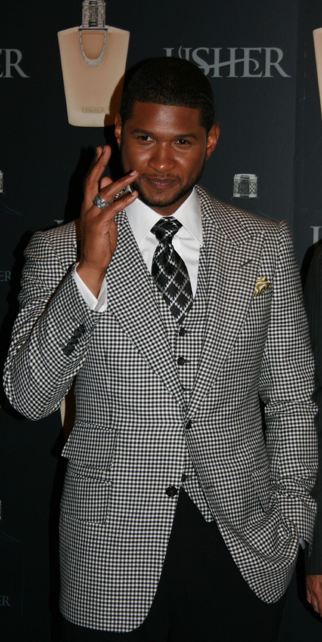 Usher Raymond during a product launching.